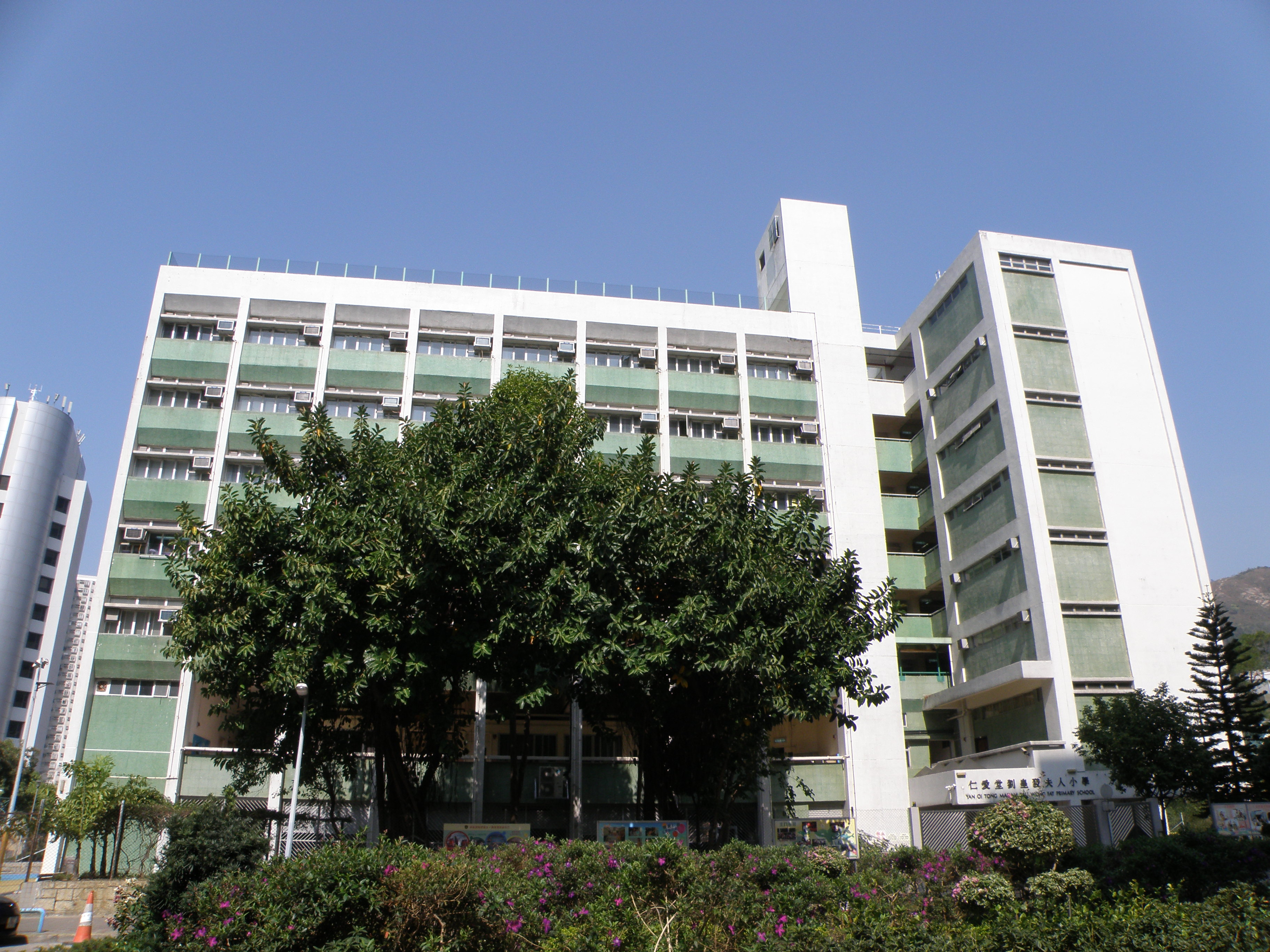 Yan Oi Tong Madam Lau Wong Fat Primary School in Tuen Mun, Hong Kong.